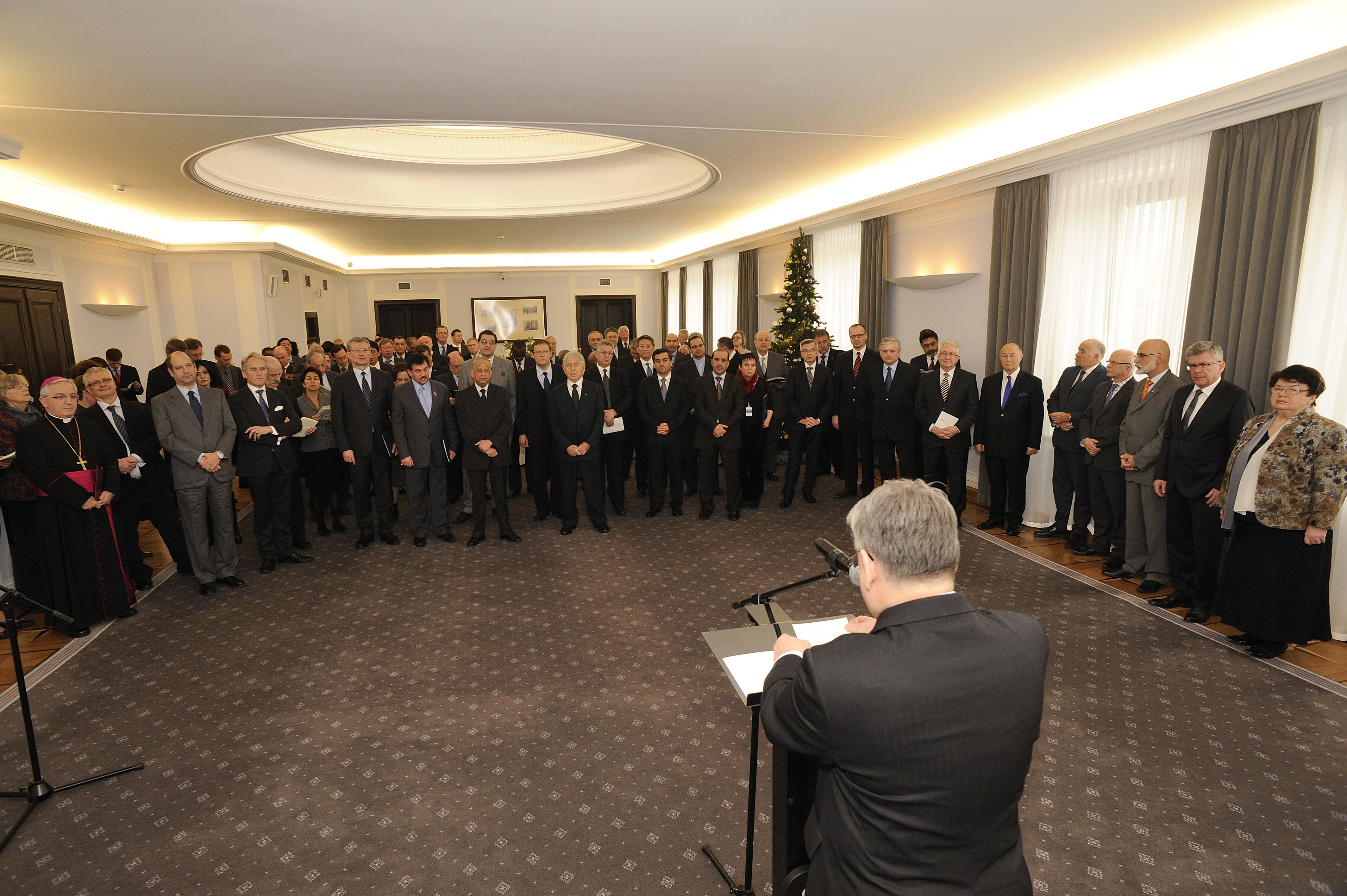 Marshal Bogdan Borusewicz New Year's meeting with members of the diplomatic corps in the Polish Senate